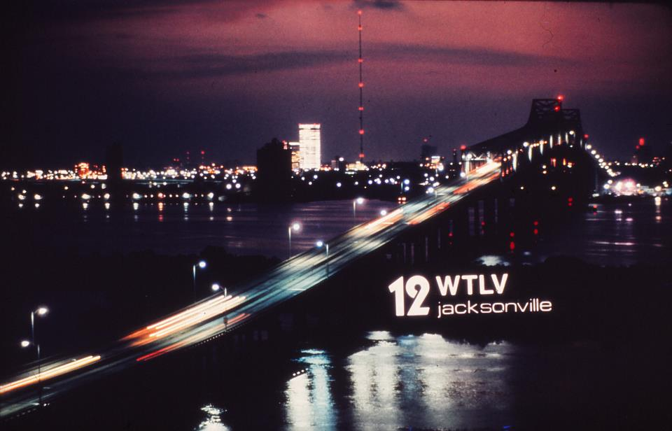 Used as the background for WTLV's newscasts at the time, it was used from the time the station adopted said call letters.